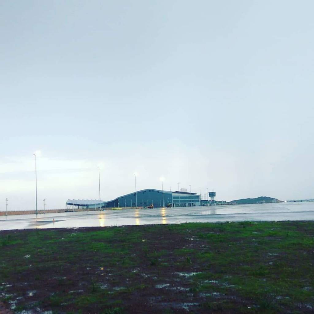 Terminal building and air traffic tower from runway side, Kannur international airport.